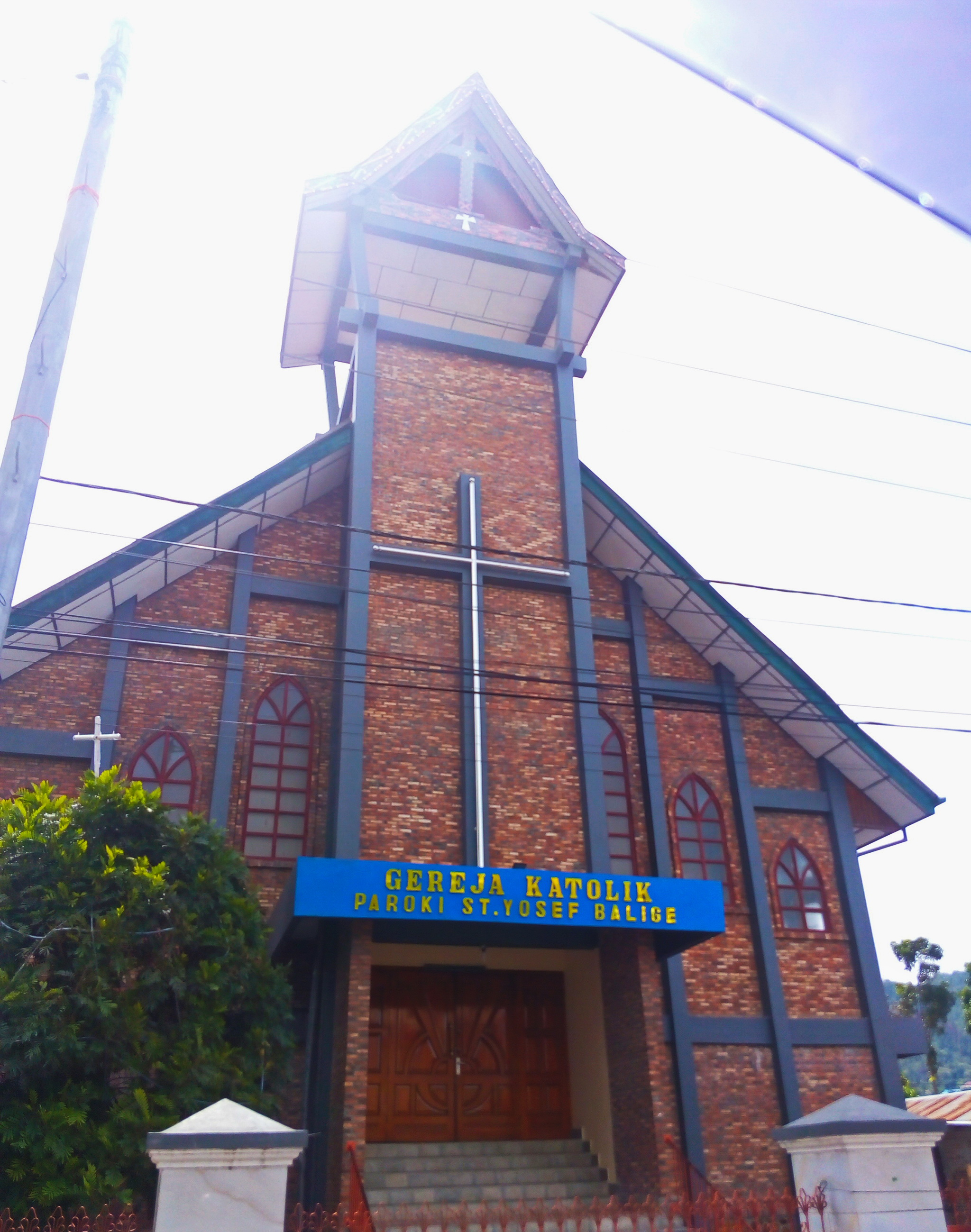 St. Yosef Catholic Church